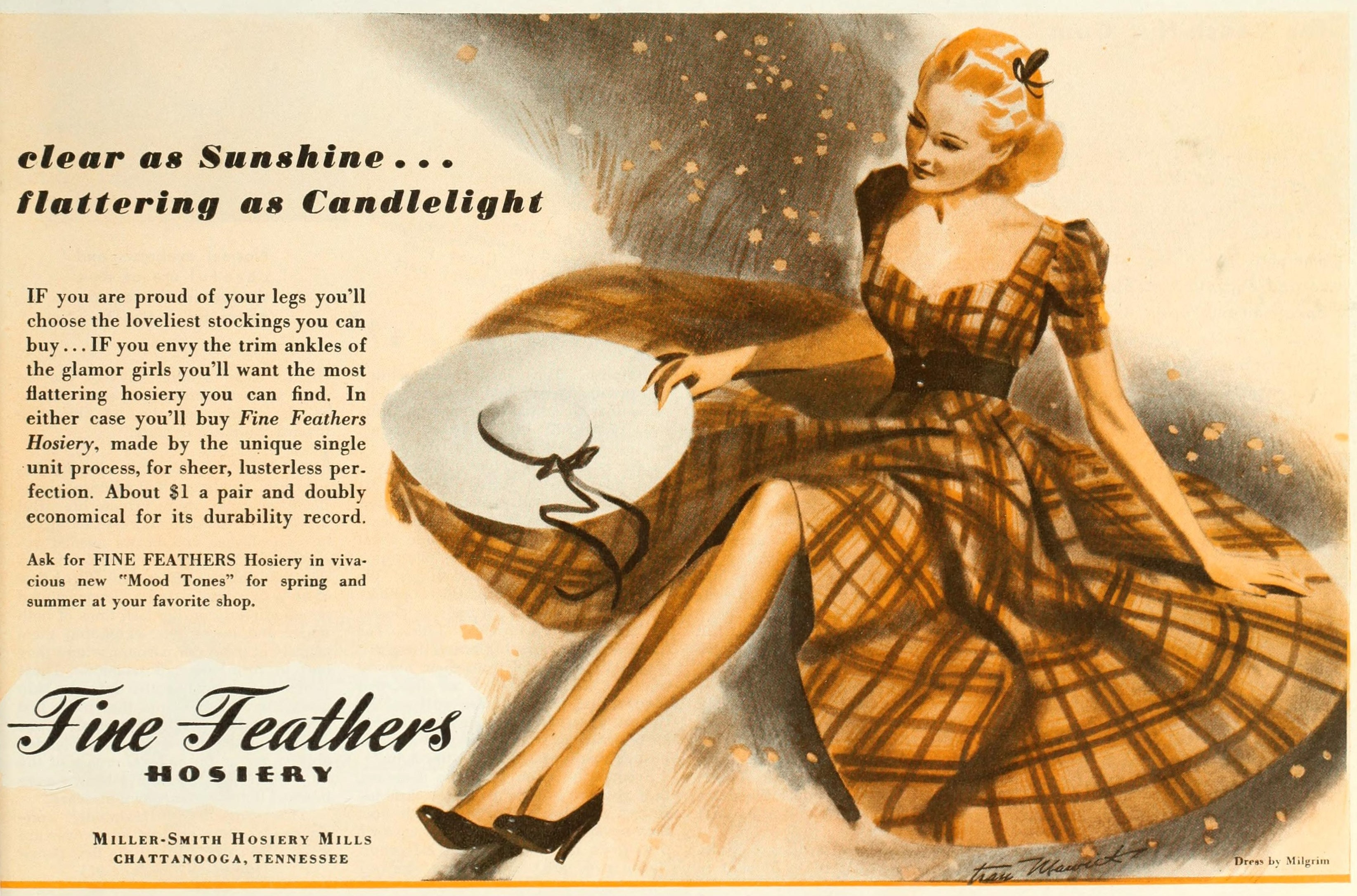 Clear as Sunshine - Fine Feathers Hosiery, 194o. Dress by Milgrim